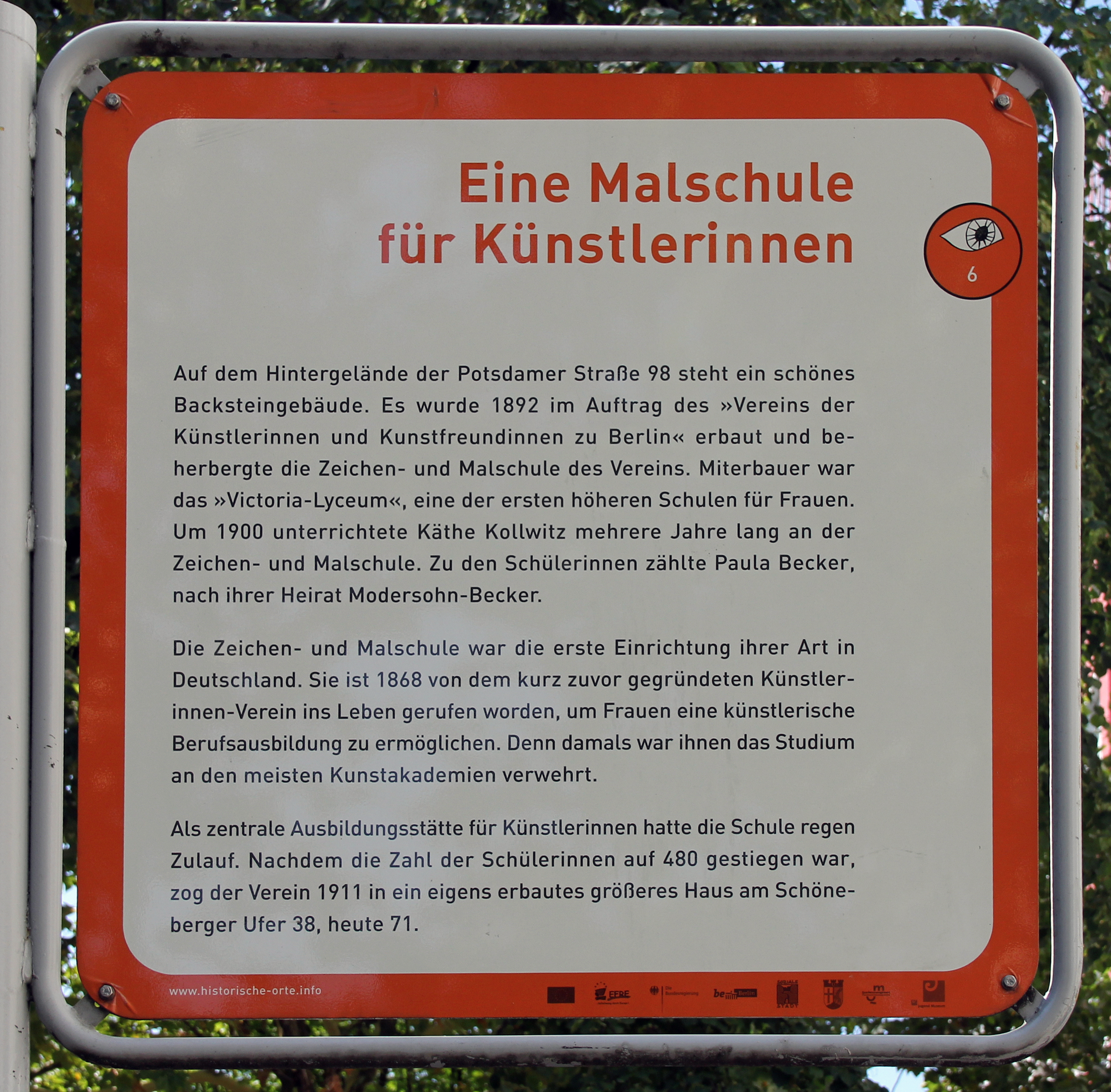 Memorial plaque, Verein der Berliner Künstlerinnen, Potsdamer Straße 98, Berlin-Tiergarten, Deutschland